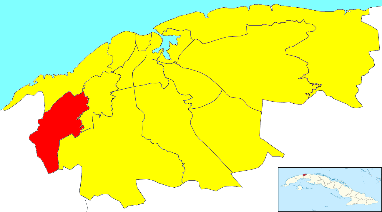 A map of the municipality of La Lisa (shown in red) within the city of Havana (yellow). The little Cuban map in the corner shows Havana (dark red) within the island.